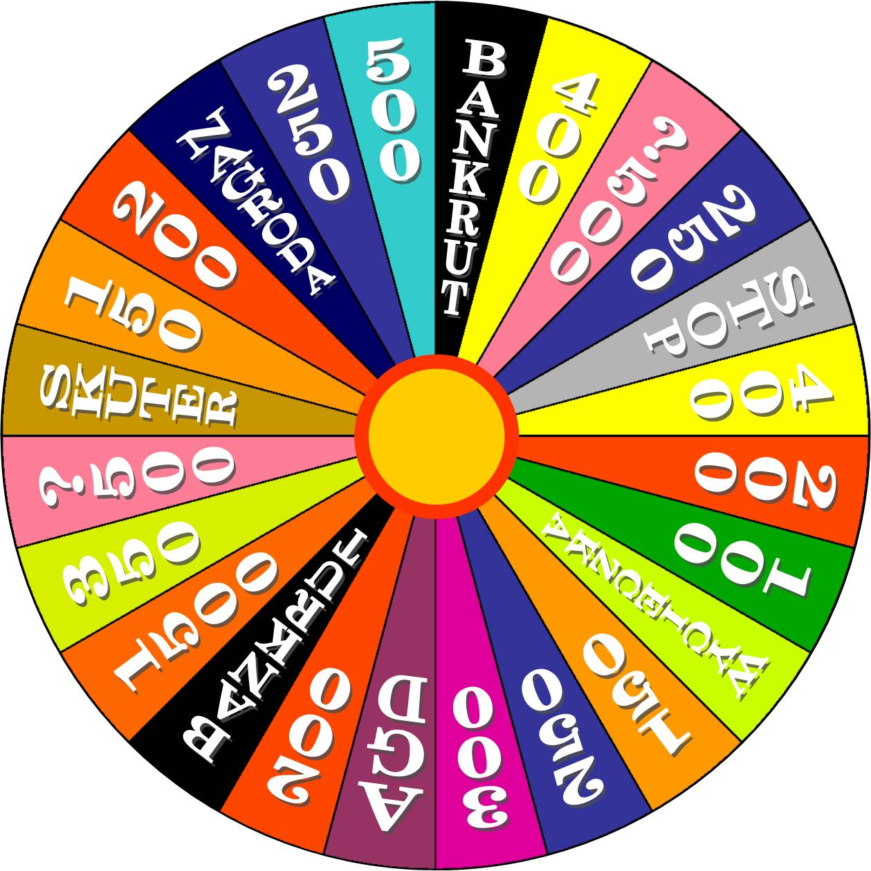 The round three wheel of the current Polish version of Wheel of Fortune since March 2009.